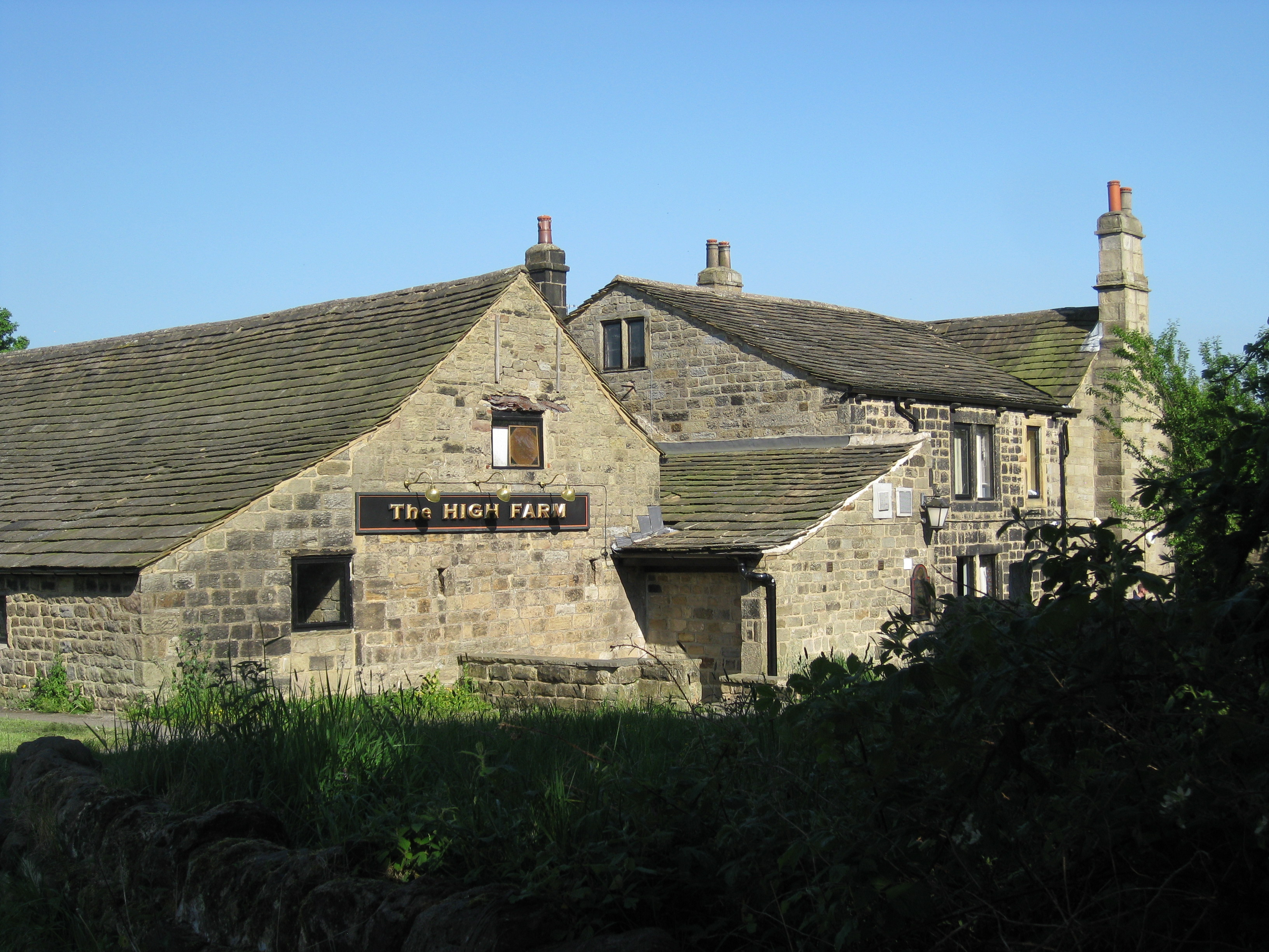 The High Farm, Farrar Lane, Holt Park, Leeds LS16 7AQ. A former farmhouse, now a pub. View from the West.